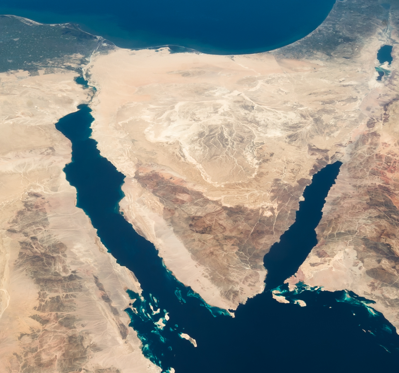 "The Nile and the Sinai, to Israel and beyond. One sweeping glance of human history." Caption by astronaut Chris Hadfield on board the International Space Station. ISS Crew Earth Observations: ISS035-E-007148 Identification Mission ISS035 (Expedition 35) Roll E Frame 007148 Camera Camera Focal Length 24 mm Camera NIKON D3S Quality Percentage of Cloud Cover 0-10% Nadir What is Nadir? Date 2013-03-20 Time 09:02:43